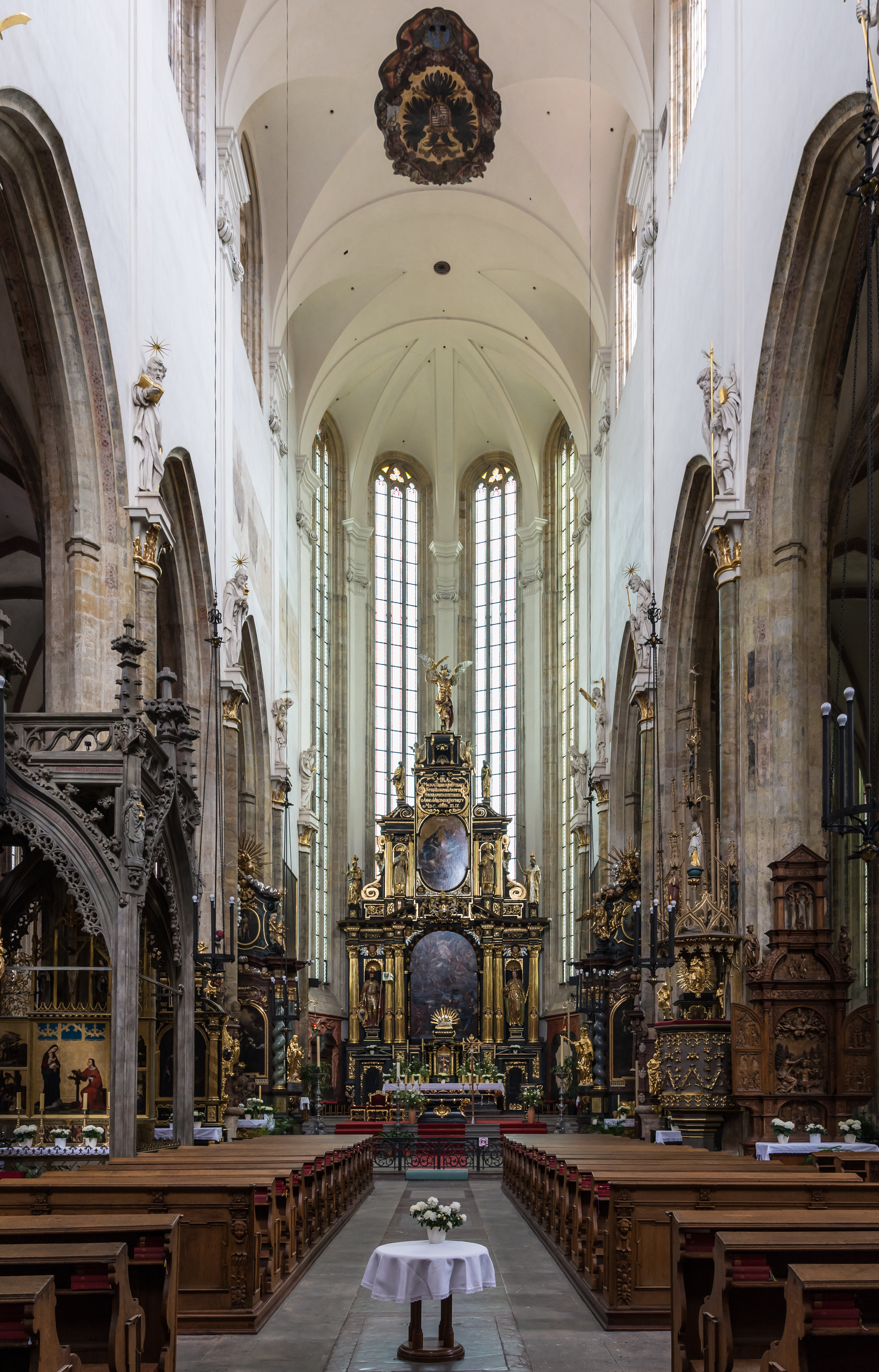 Interior of Týn Church (in Czech Kostel Matky Boží před Týnem, also Týnský chrám) in the Old Town of Prague, Czech Republic